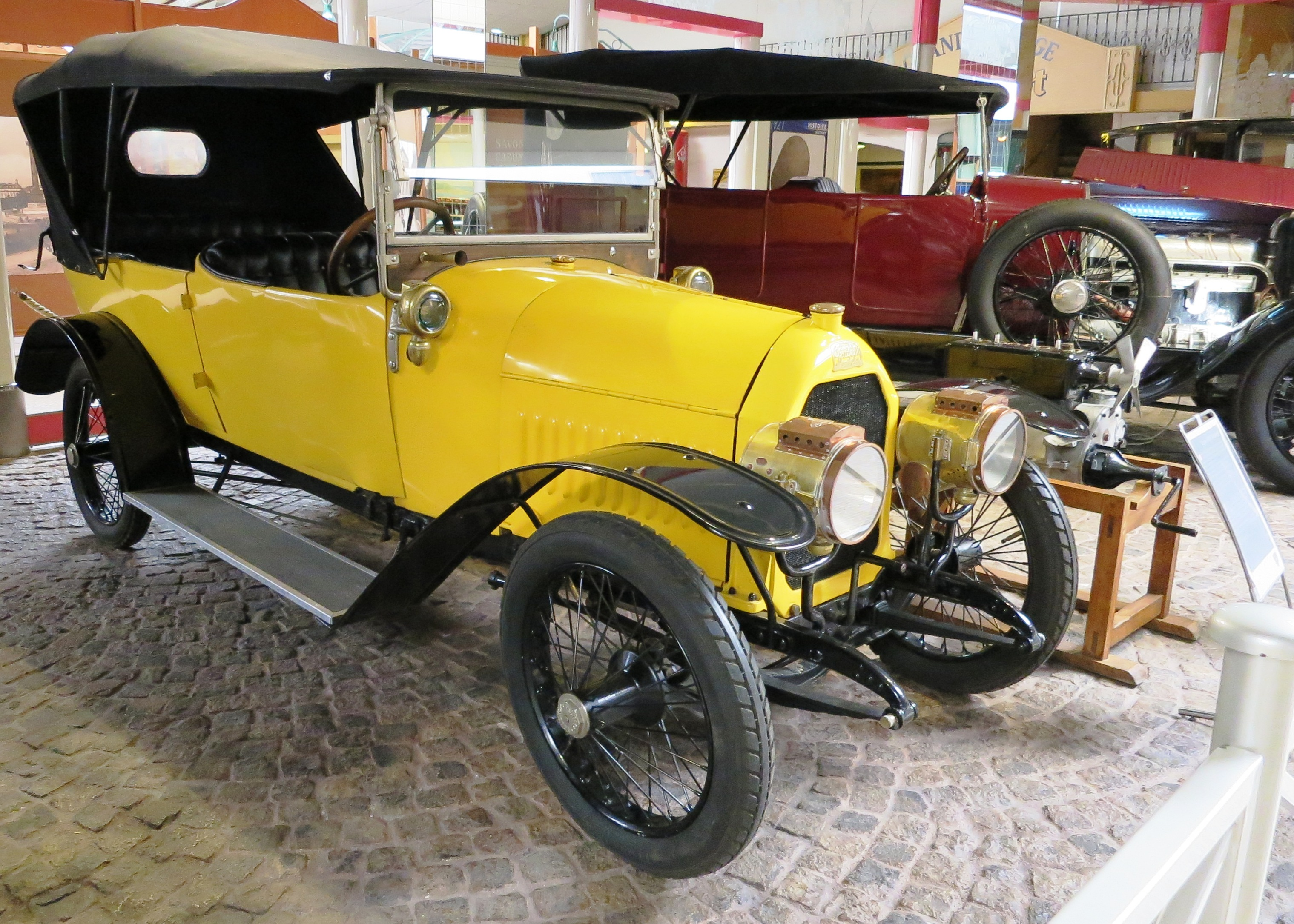 Peugeot Type 159 Torpedo bodied